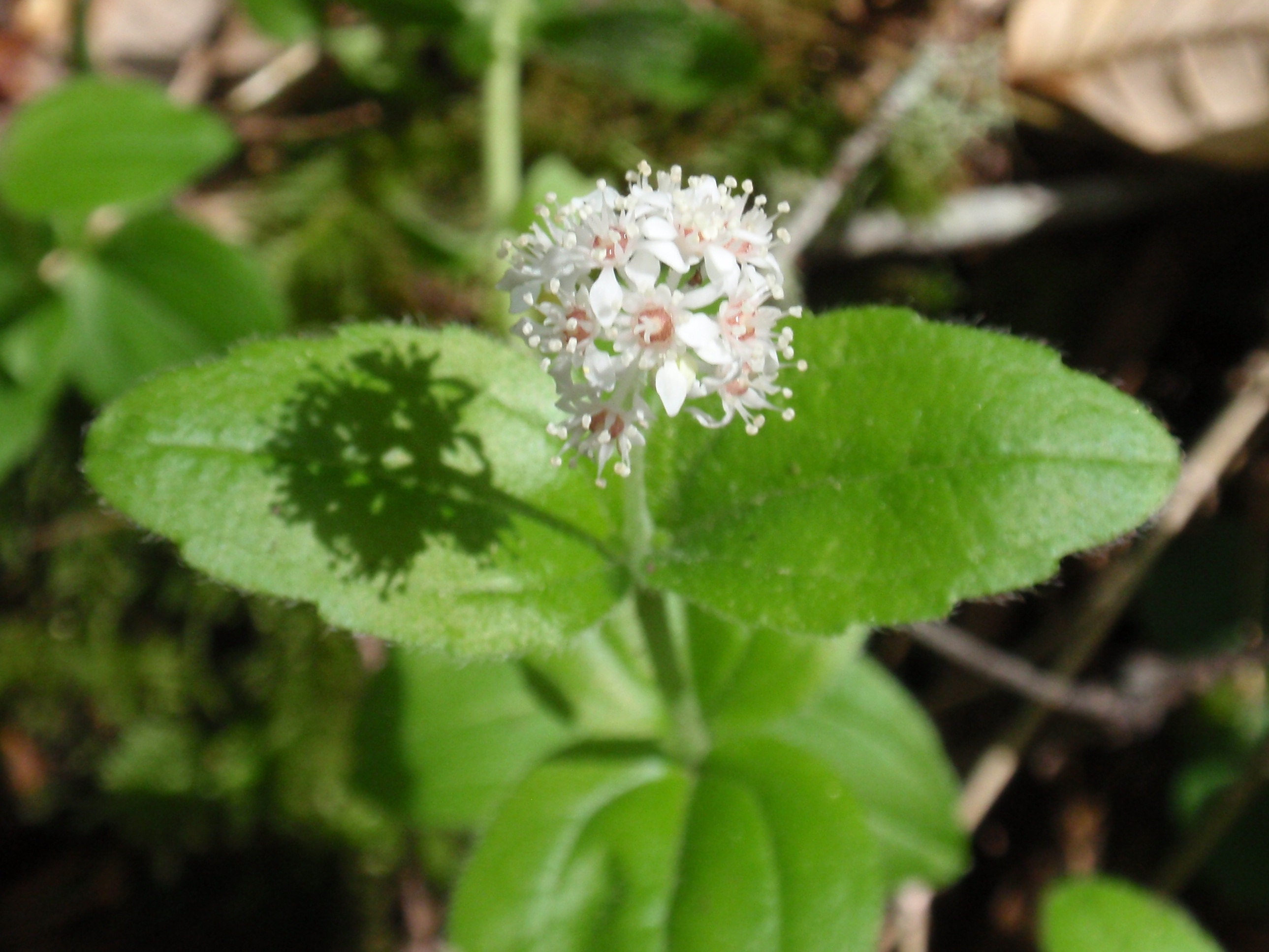 Whipplea modesta in Plantation, California, USA